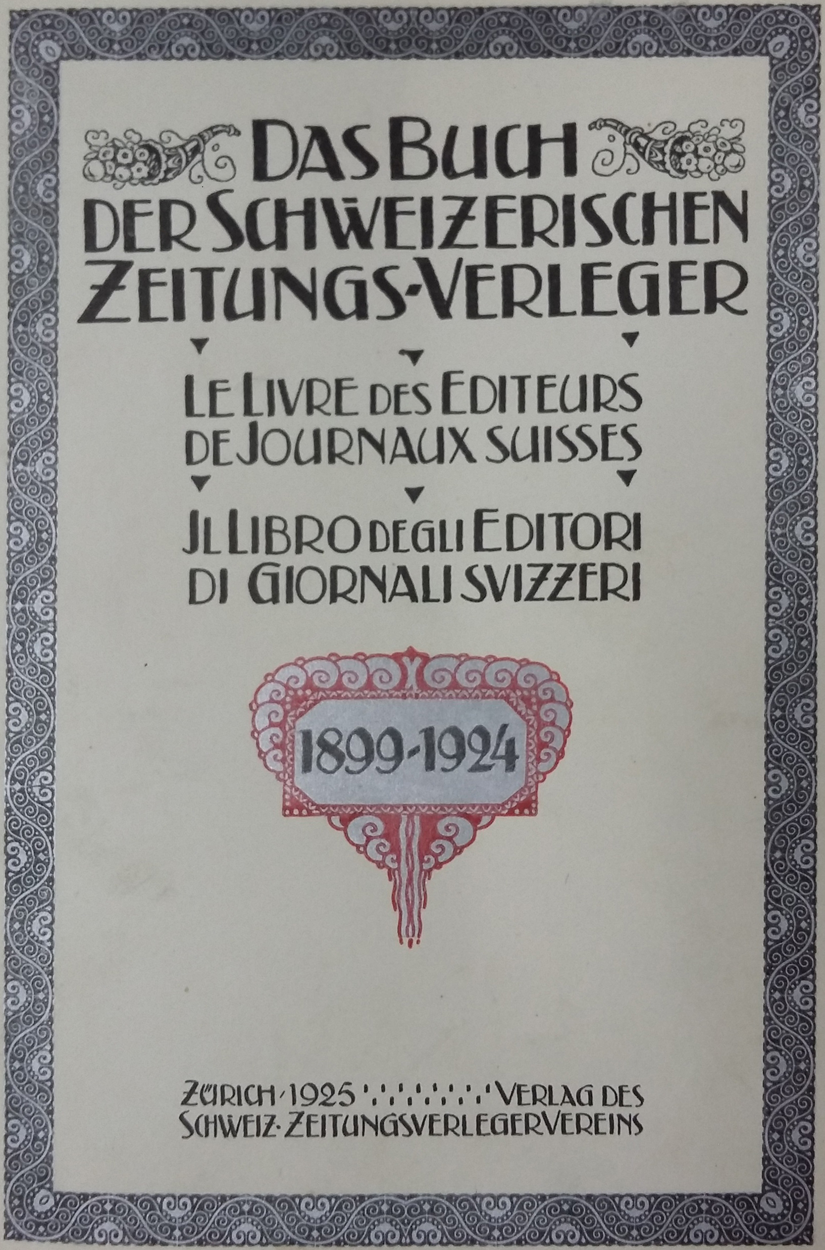 Cover of the book Das Buch der schweizerischen Zeitungsverleger on the occasion of the 25 anniversary of the association 1924